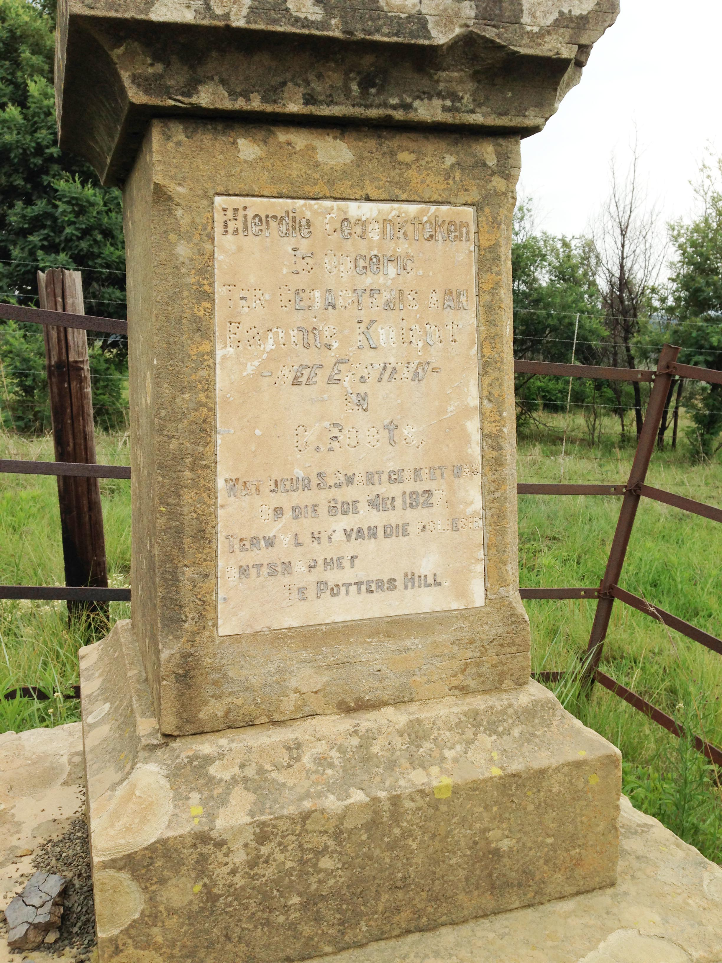 Close up of the memorial inscription